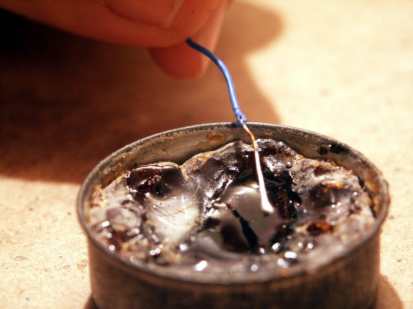 good soldering, step 2